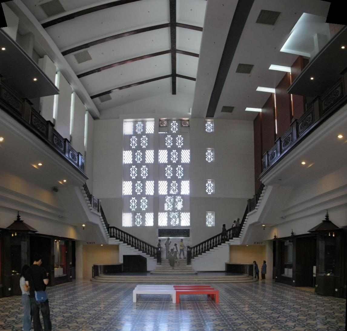 The main hall of the National Museum in Kuala Lumpur.